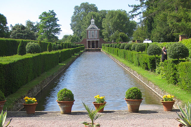 Canal, Westbury Court Garden Dutch Water Garden, restored by the National Trust. Note the photographer lurking in the yew hedge.